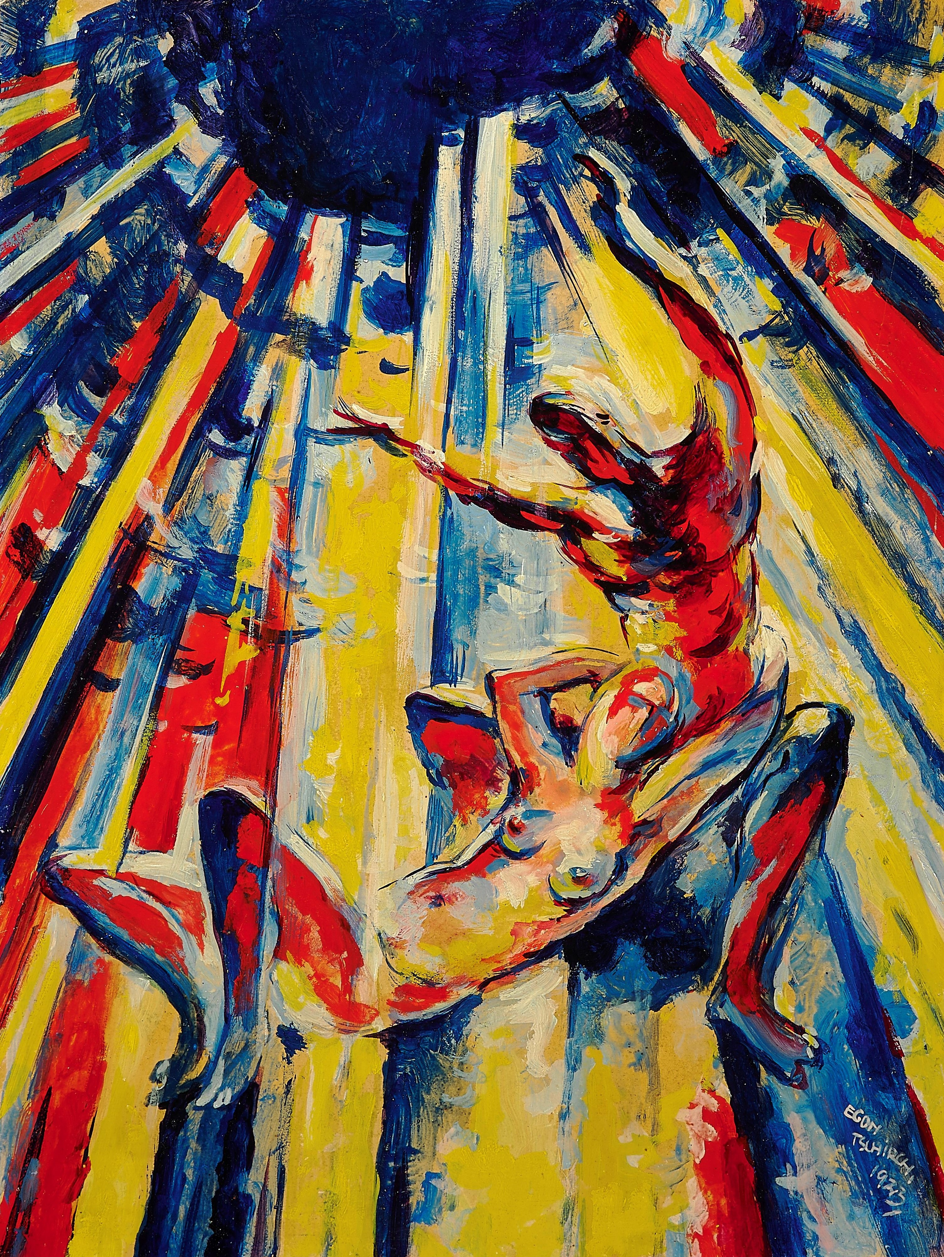 picture cycle / cycle of paintings „Song of Songs“ no 11 (Egon Tschirch, 1923), high resolution